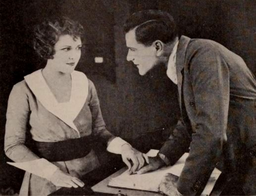 Still from the American comedy film Easy to Make Money (1919) with Gertrude Selby and Bert Lytell, on page 63 of the August 9, 1919 Exhibitors Herald.